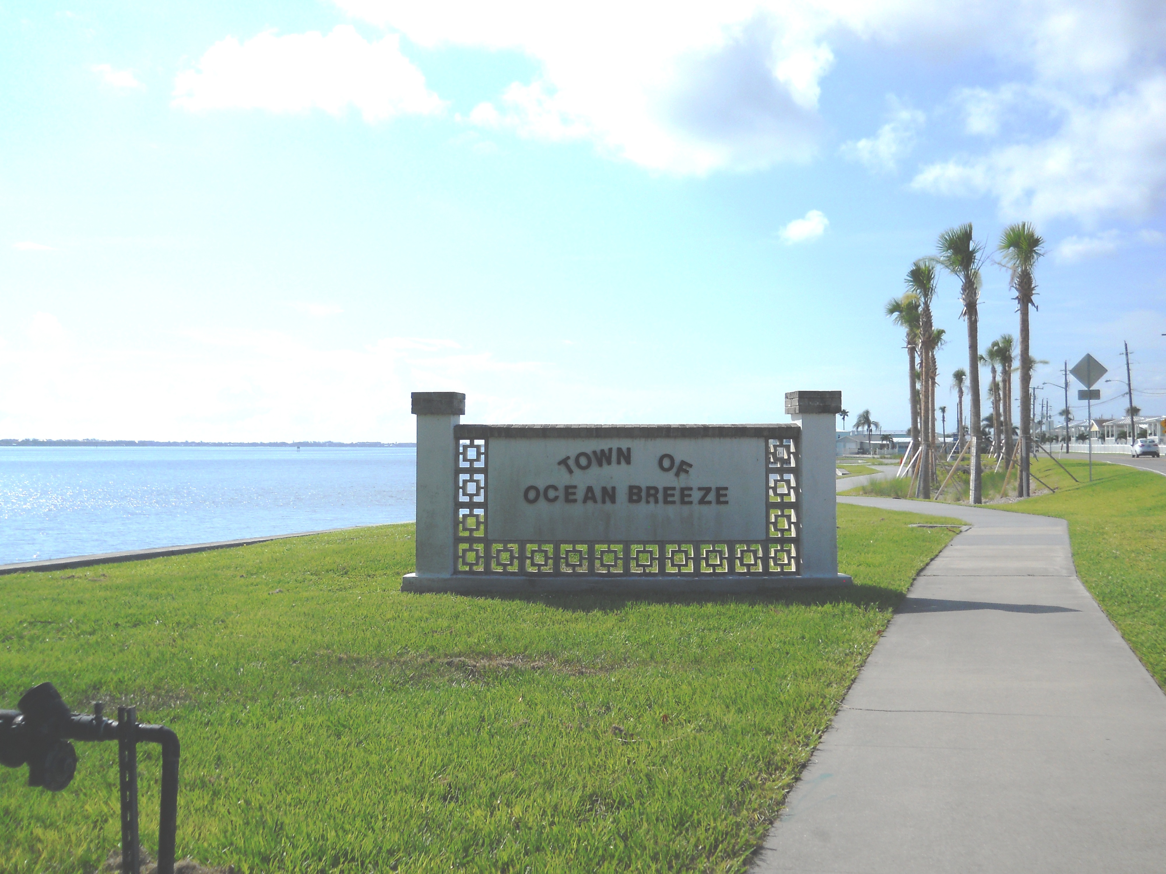 Ocean Breeze Resort, Ocean Breeze, Florida: Welcome sign showing the town's new name, looking south on Indian River Drive